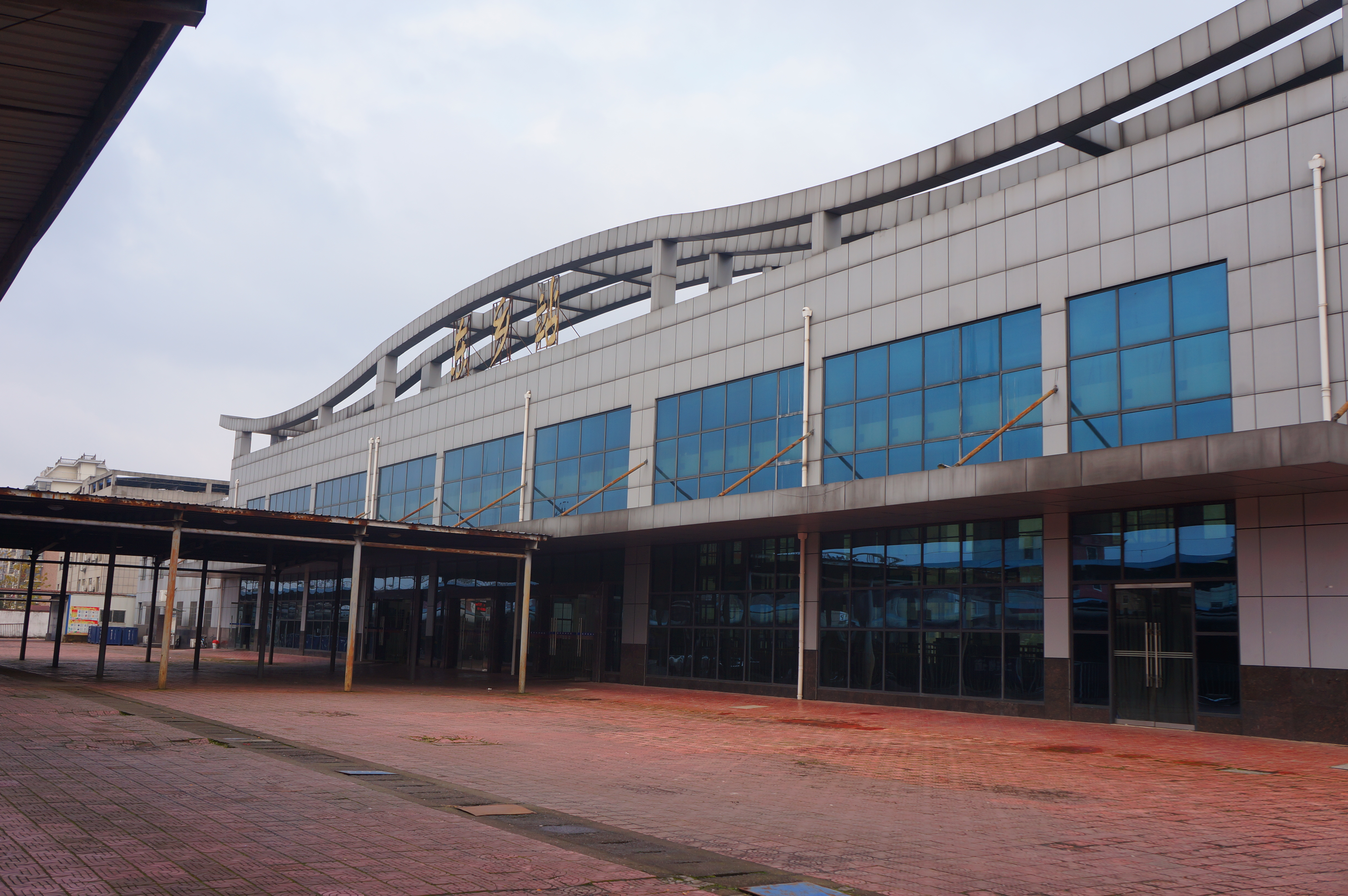 201612 Dongxiang Station